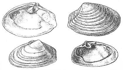 Lentidium complanatum from British Pliocene Crag deposits